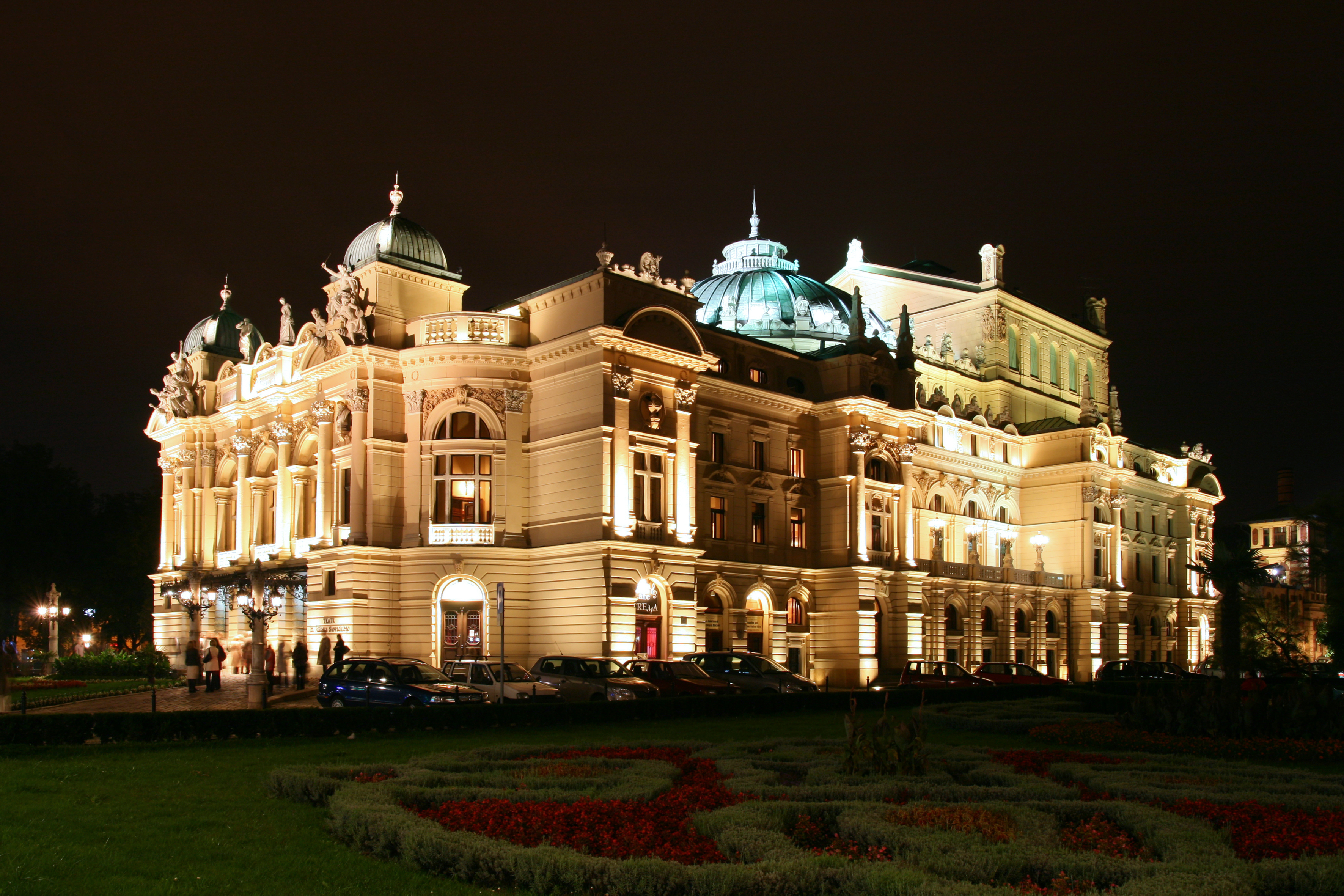 Juliusz Słowacki Theatre in Kraków by night.